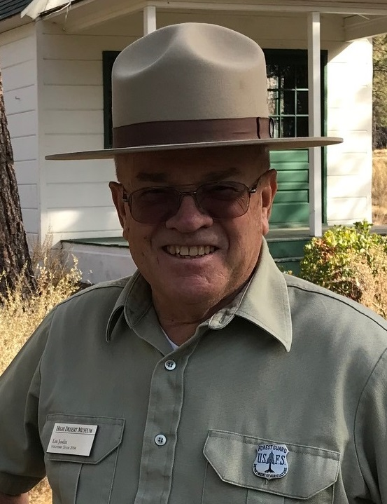 Les Joslin is a retired military officer, forester, and author; photograph was taken in August 2018 at the High Desert Museum near Bend, Oregon